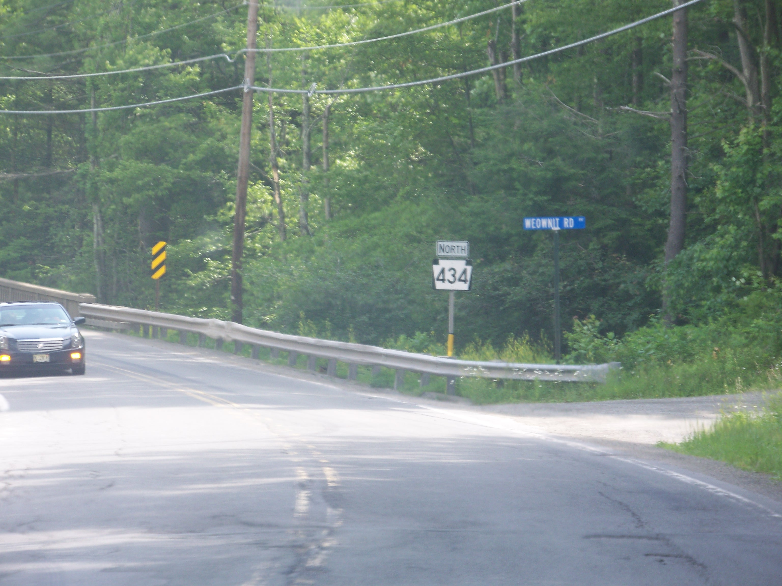 PA 434 sign near Greeley, Pennsylvania